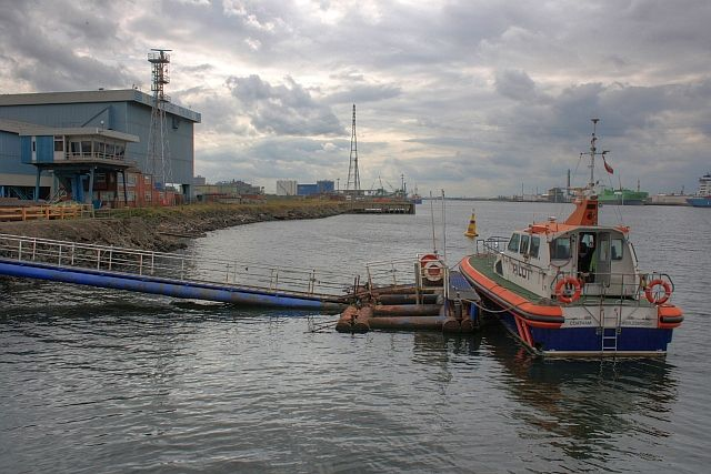 Pilot's Pontoon, Teesport In use temporarily as their usual berth has suffered storm damage. To the left is the Harbour Master's office.